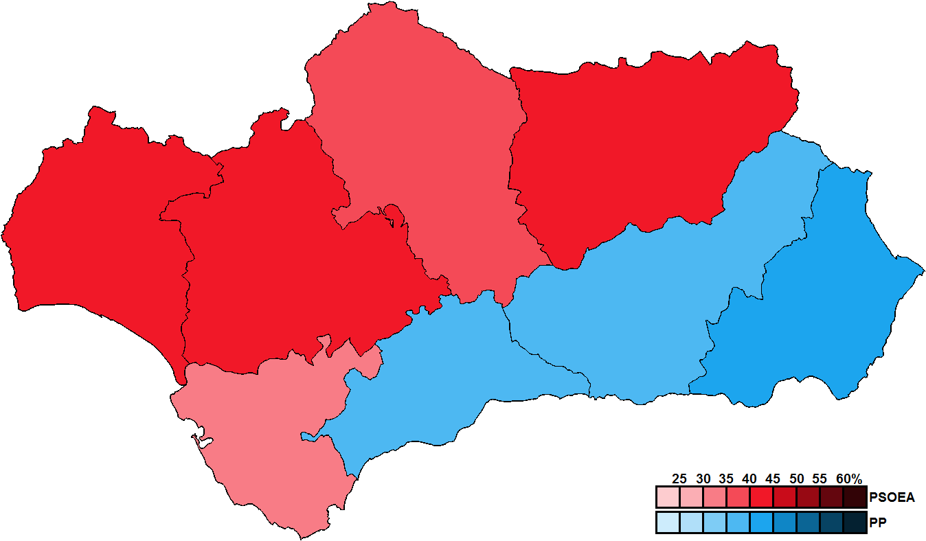 Provincial results for the 1994 Andalusian regional election.